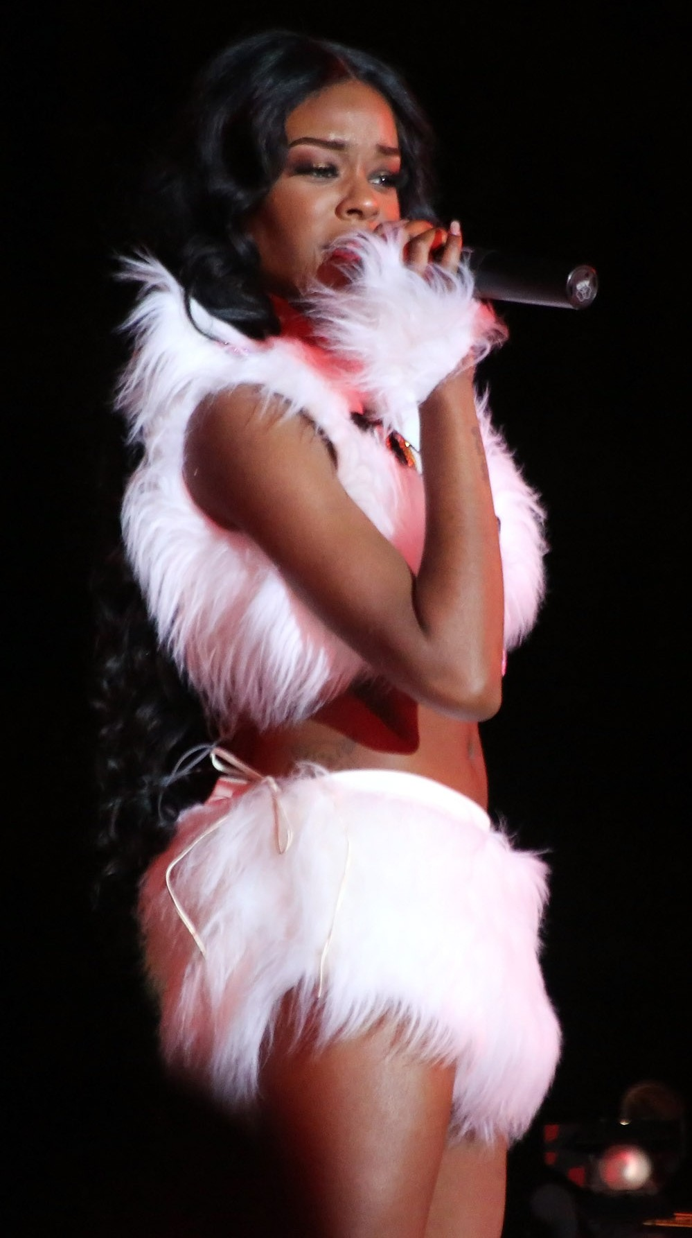 Azealia Banks, opening show of Life Ball 2013 at the city hall of Vienna, Vienna, Austria.